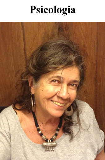 Vera Felicidade, psychologist